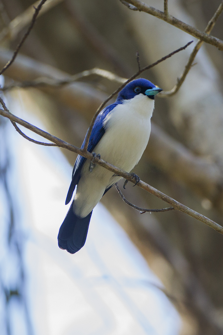 Blue vanga (Cyanolanius madagascarinus)